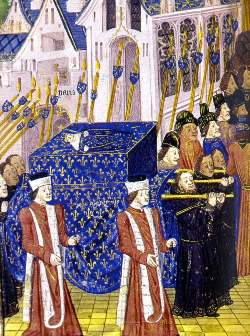 The death convoy of Jean I of France.